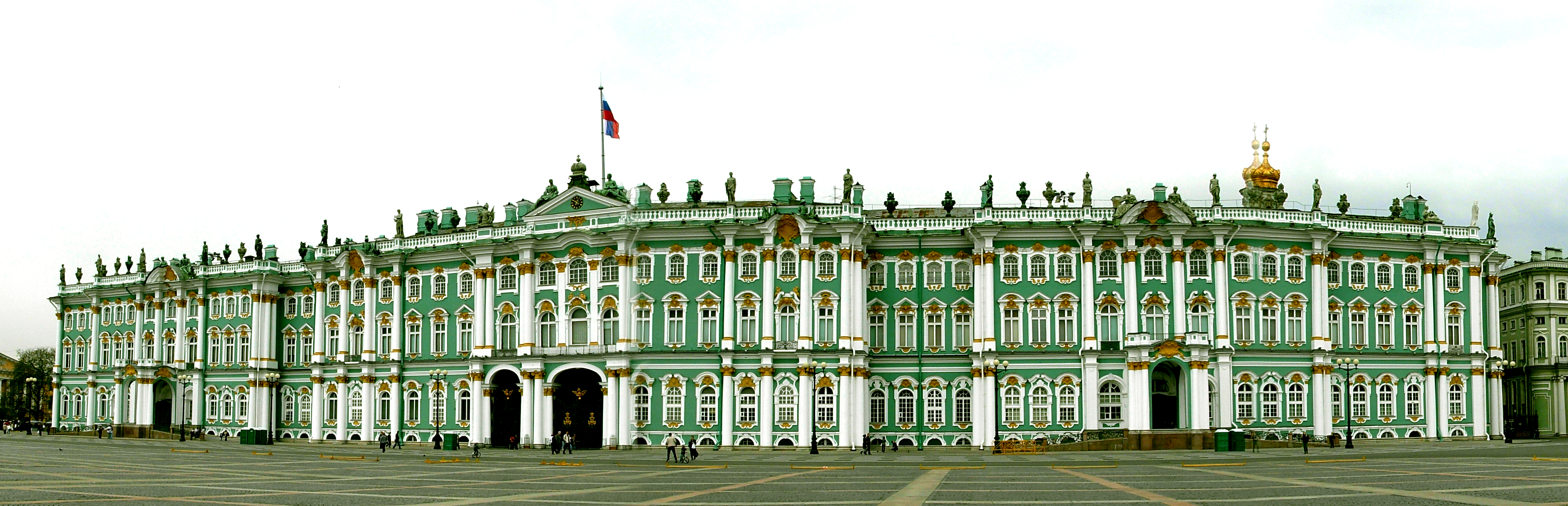 Winter Palace